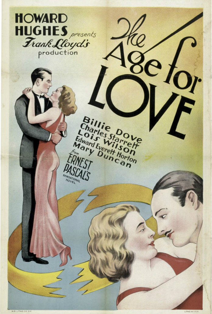 Poster for the 1931 film The Age for Love. There are no copyright marks on the poster. At bottom left is M.R. Litho Co, NY. At bottom right is Litho in USA.